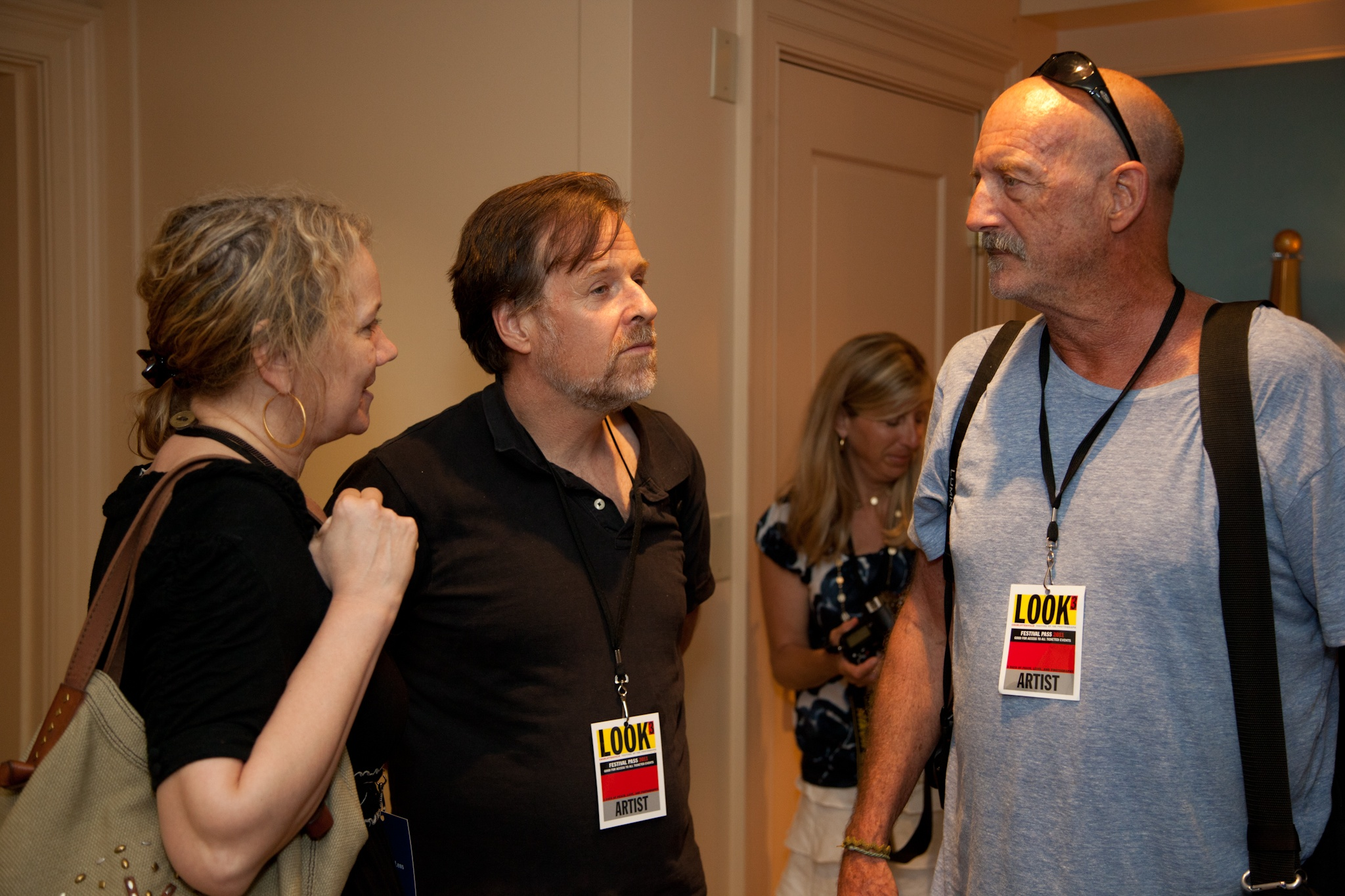 Another trivecta of photographic greatness